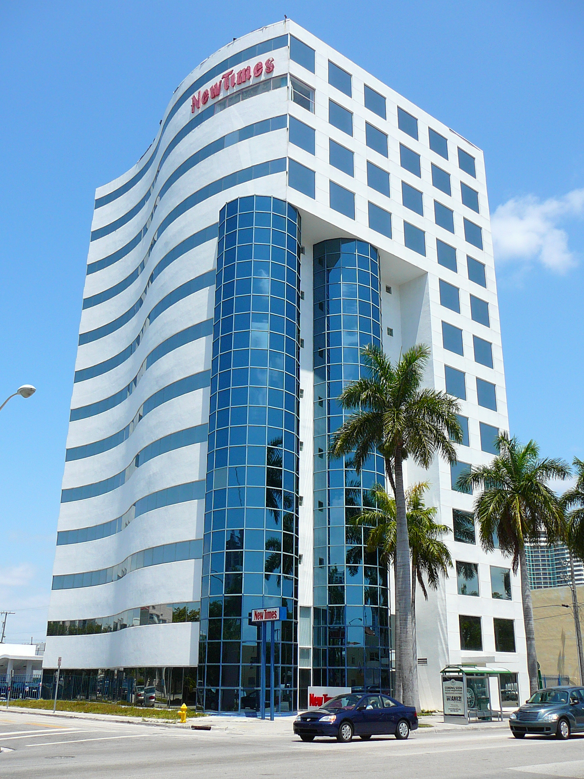 Digital photo taken by Marc Averette. The Miami New Times building in Midtown Miami from Biscayne Boulevard 5/16/2008